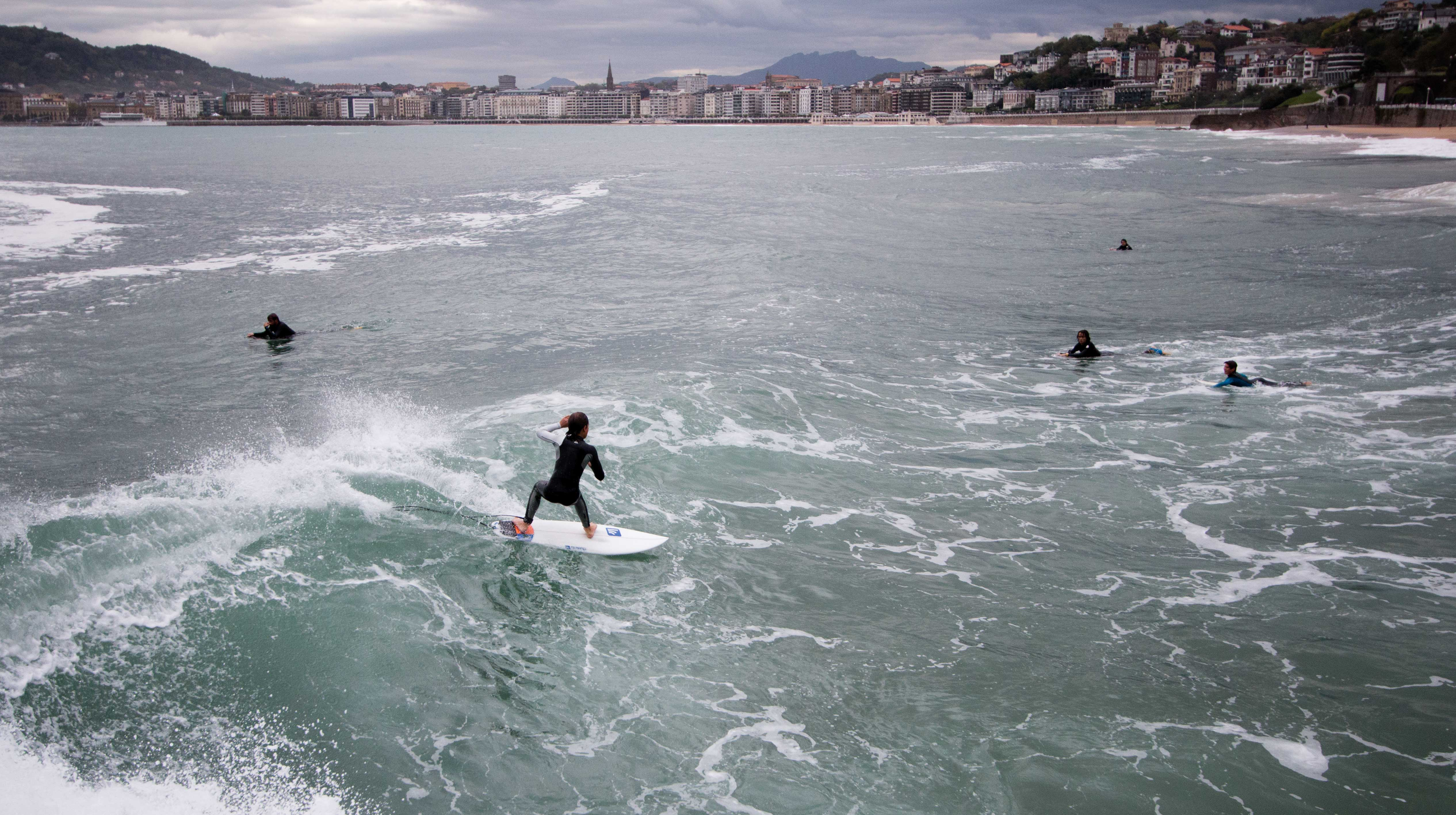 Scenic view from the comb of the wind ride to the Ondarreta beach.